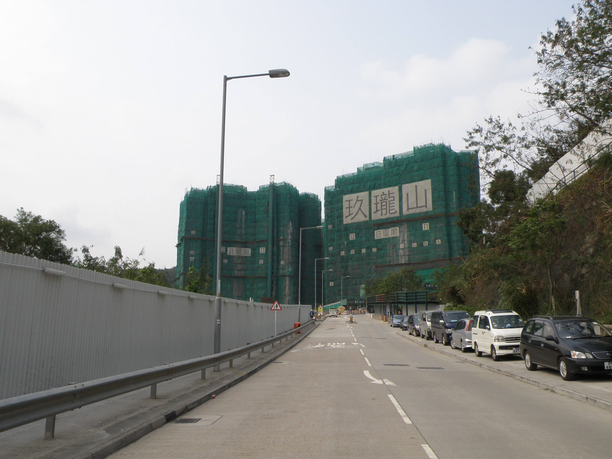 Dragons Range in Kau To, Hong Kong.